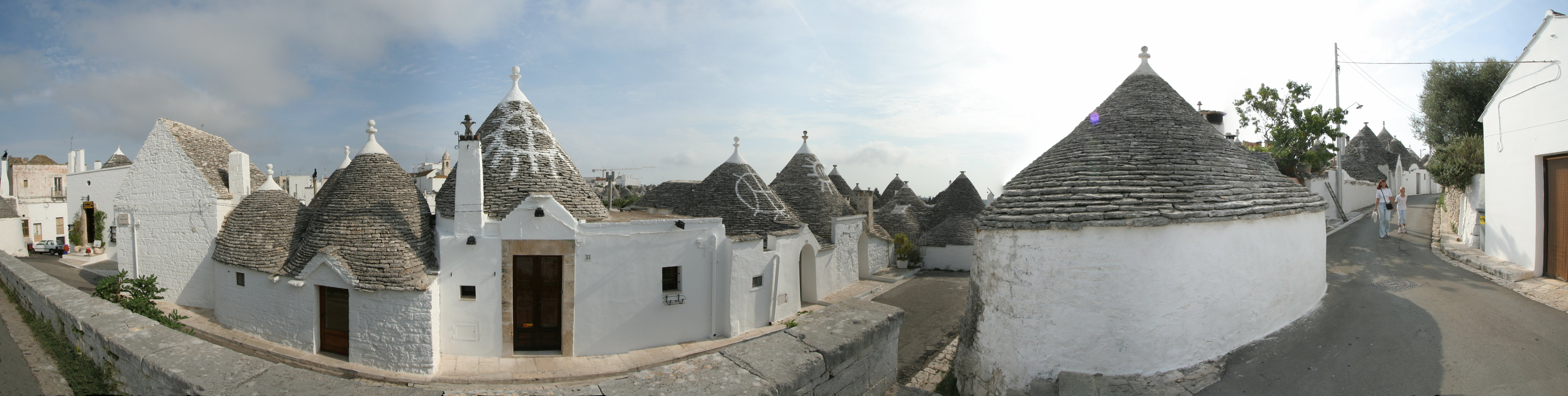 Panoramic view of a street in Alberobello. View angle 160°